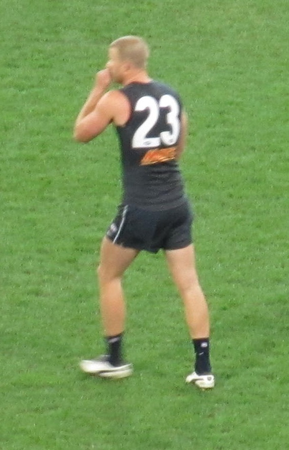 Lachlan Henderson playing for Carlton against St Kilda, Round 24, 2011